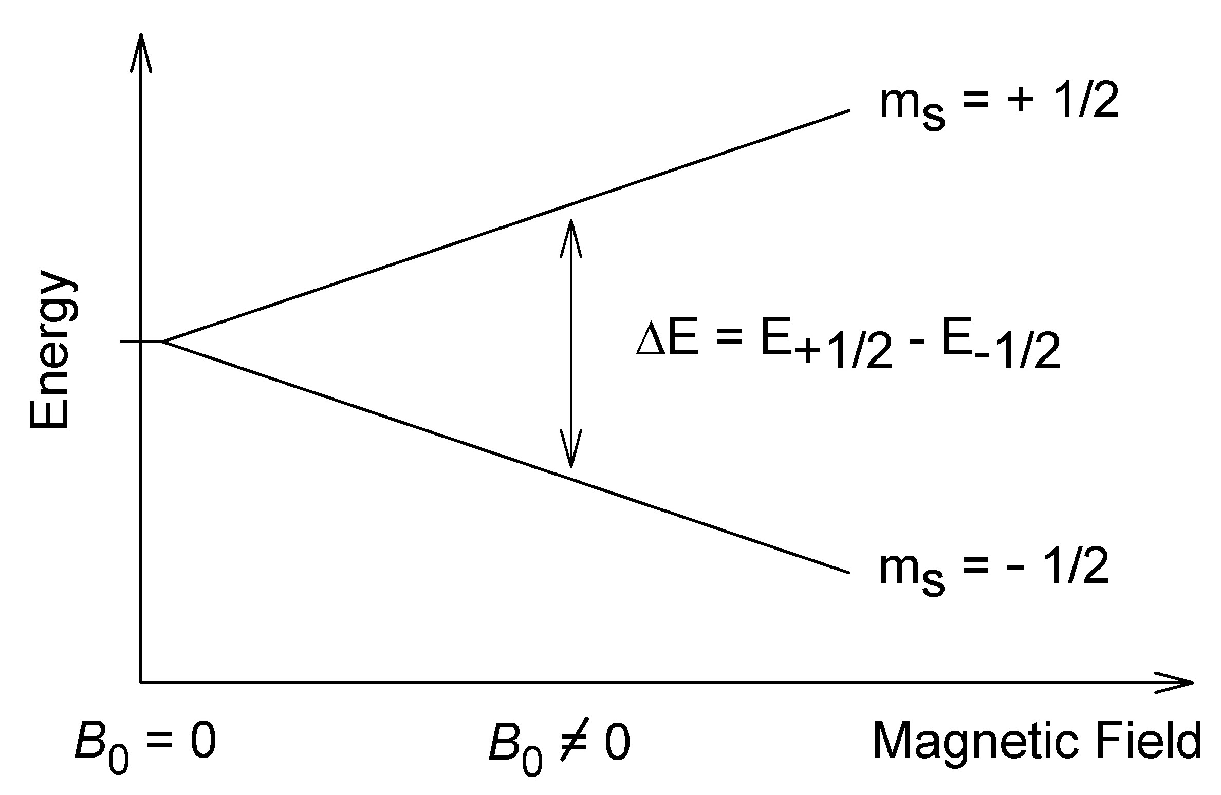 Personal creation; no rights claimed